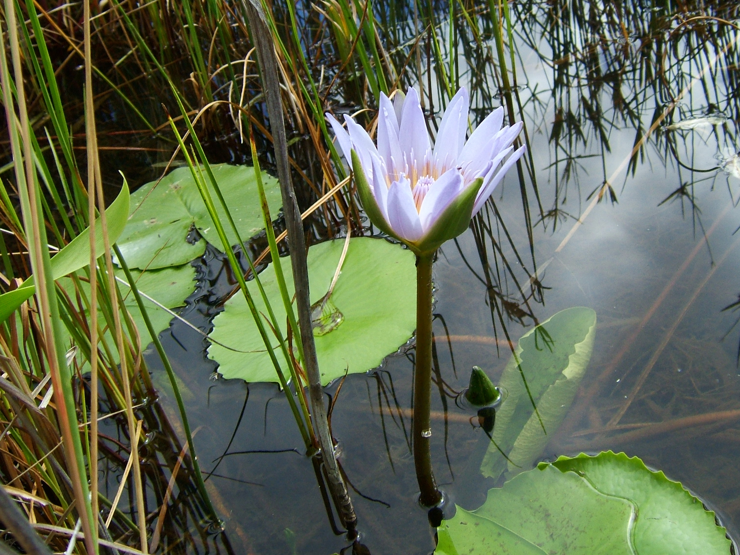 Booshank 21:10, 23 June 2006 (UTC)